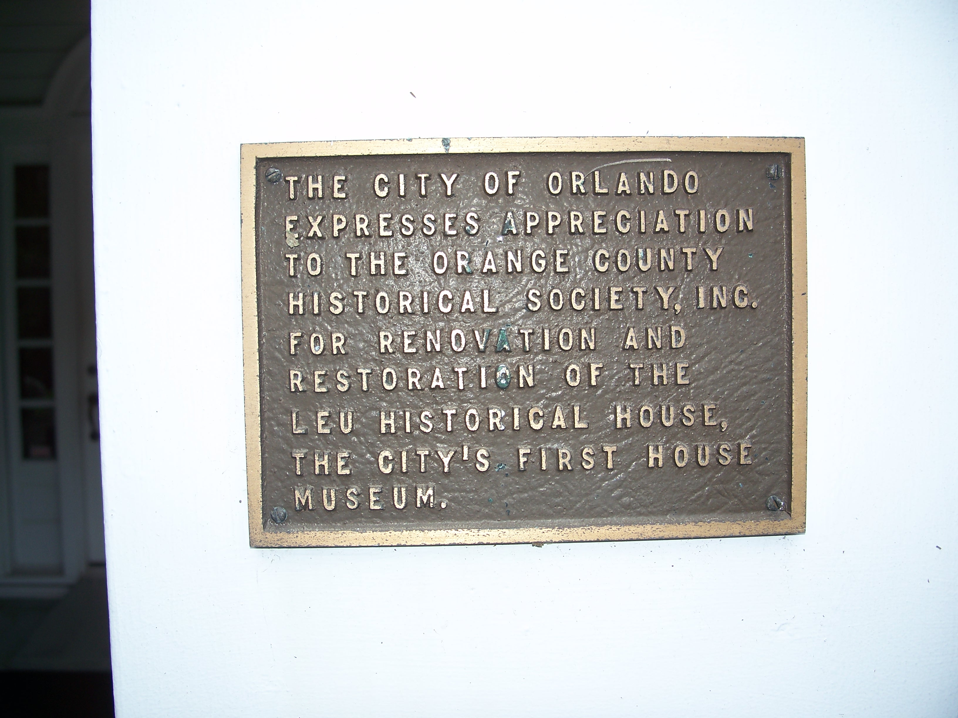 Historical marker at the Mizell Leu House, in Orlando, Florida